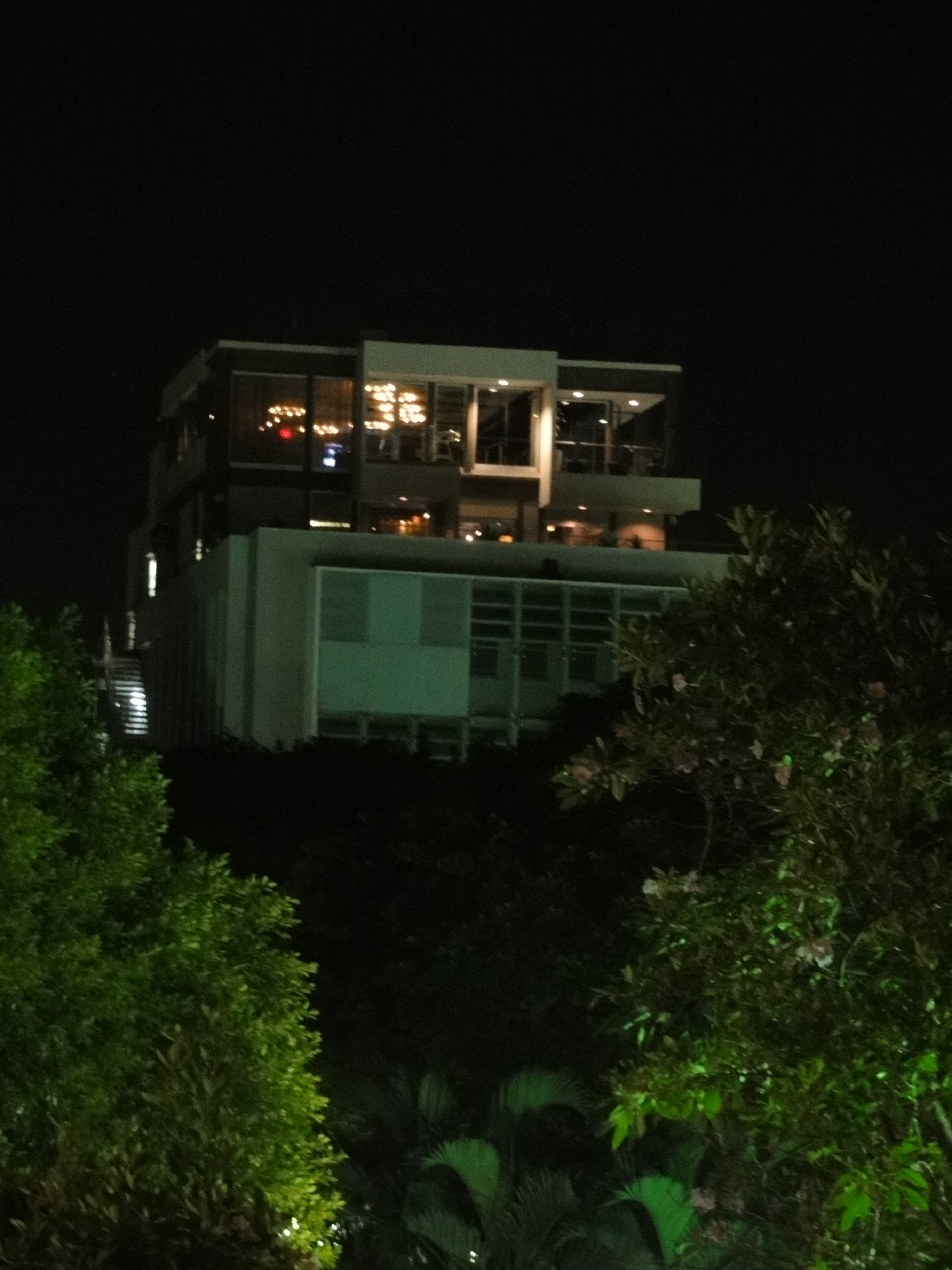 Barra, Salón de cócteles y Restaurante 'Vistas', en azotea (6to piso) del Edif. González, C. Marina, Bo. Tercero, Ponce, PR, mirando al este (DSC02655)